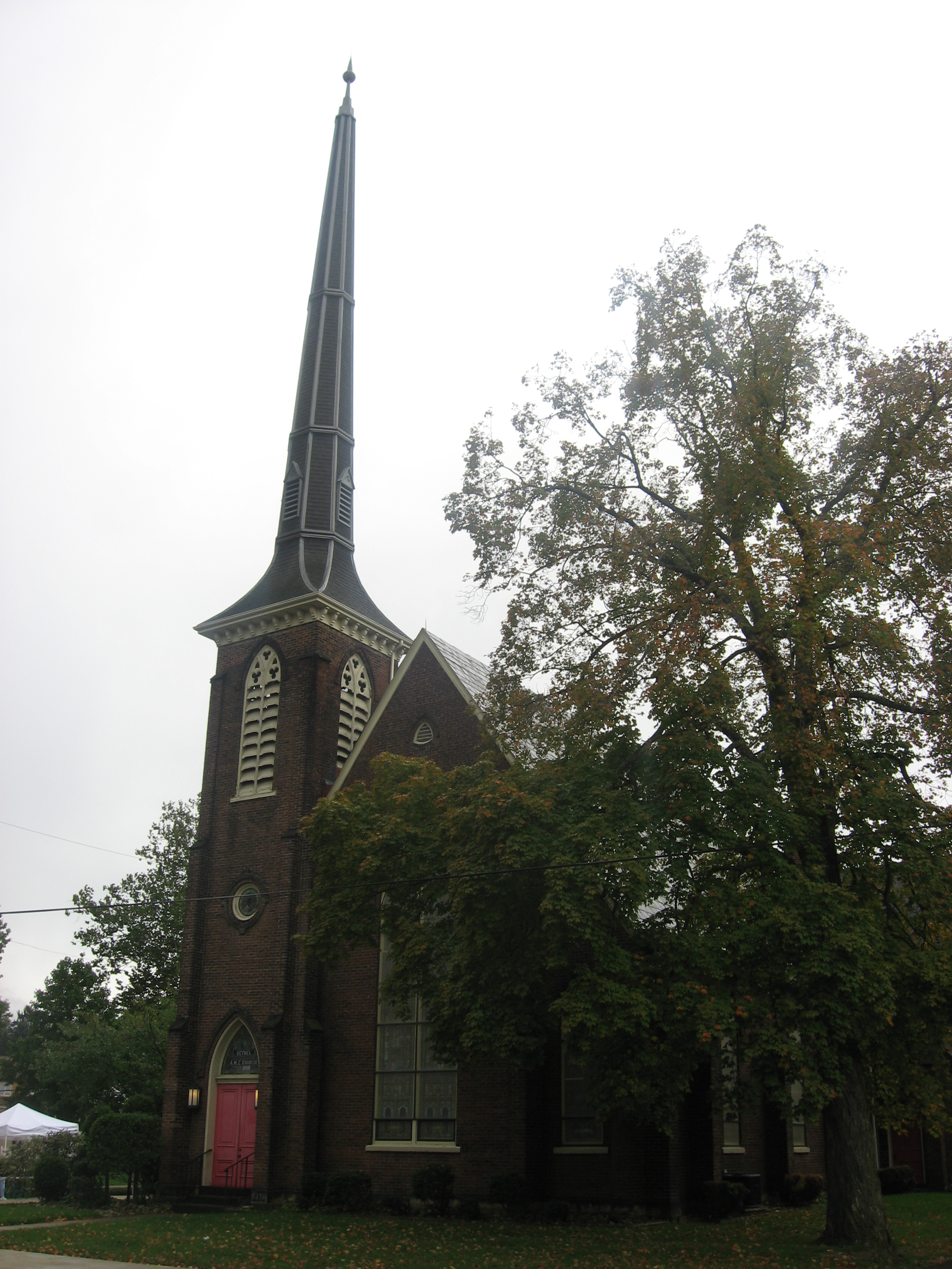 Front and western side of Bethel AME Church, located on Main Street (Pennsylvania Routes 88/837) in Monongahela, Pennsylvania, United States. Built in 1871, it is listed on the National Register of Historic Places.